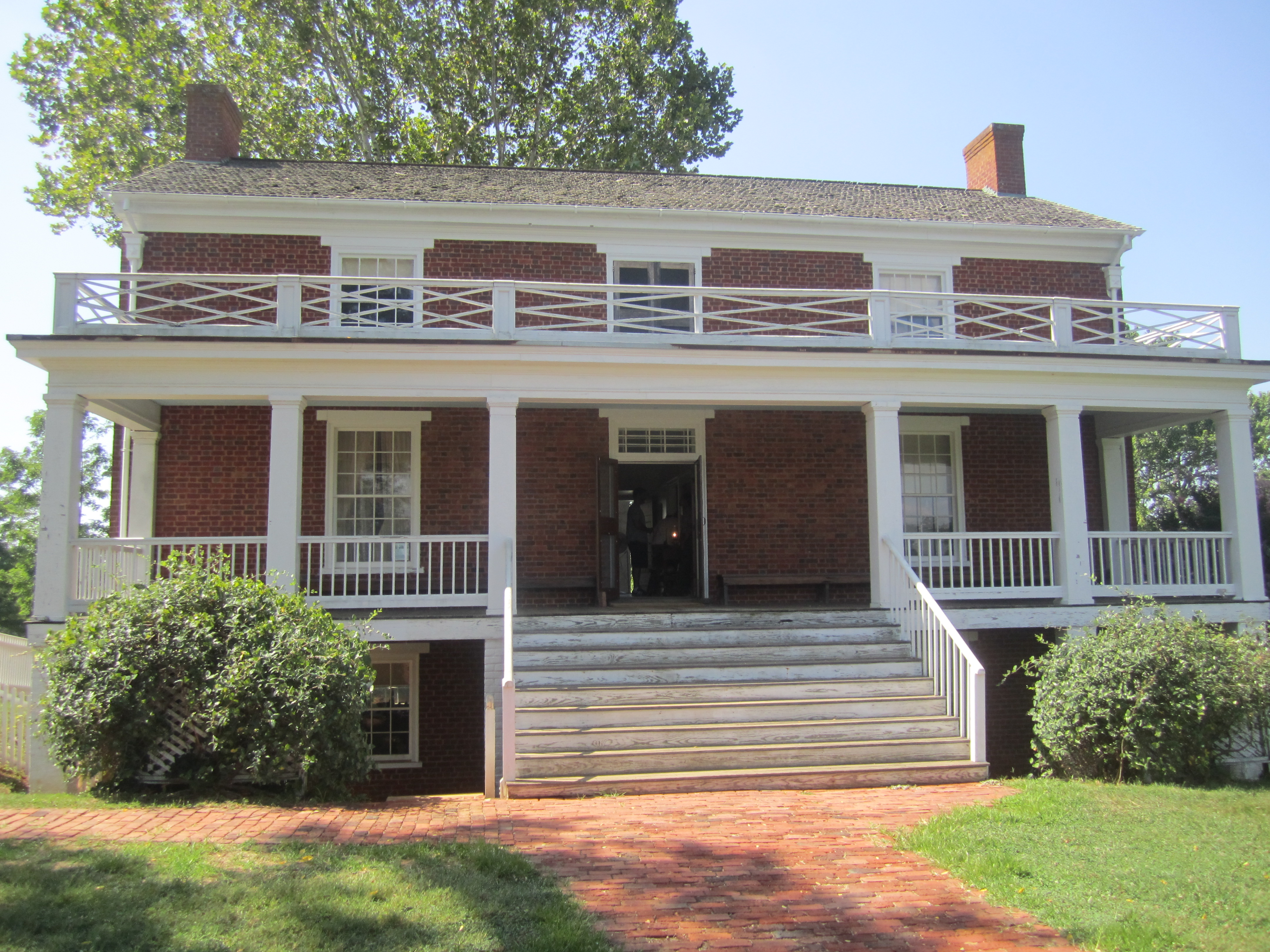 I took photo with Canon camera of restored McLean House at Appomattox Court House National Historic Park in VA.